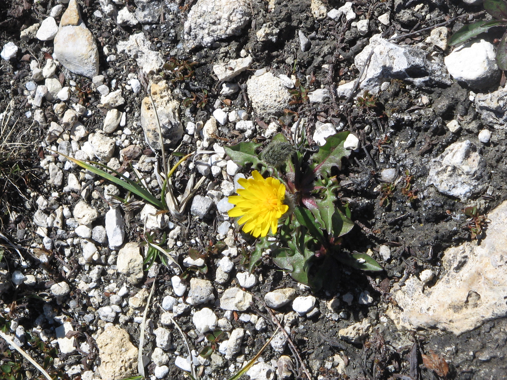 Taraxacum schroeterianum